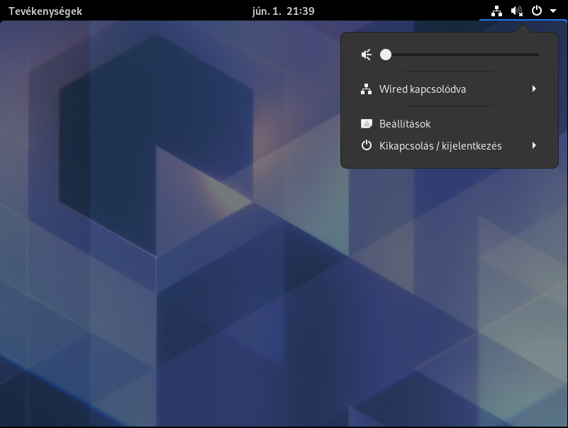 GNOME 3.36's GUI on freshly installed Arch Linux.